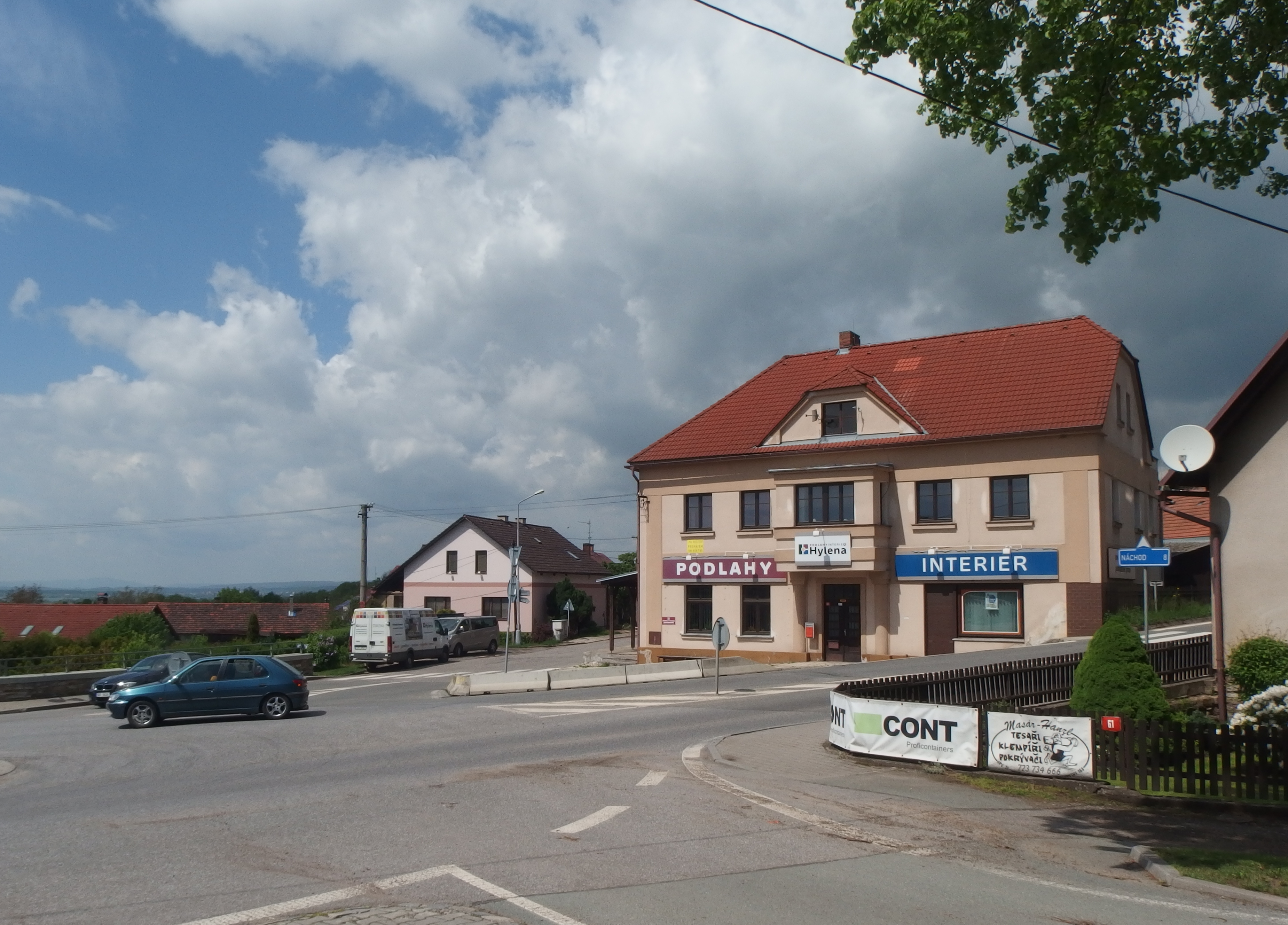 Nové Město nad Metují, Náchod District, Czech Republic, part Vrchoviny.